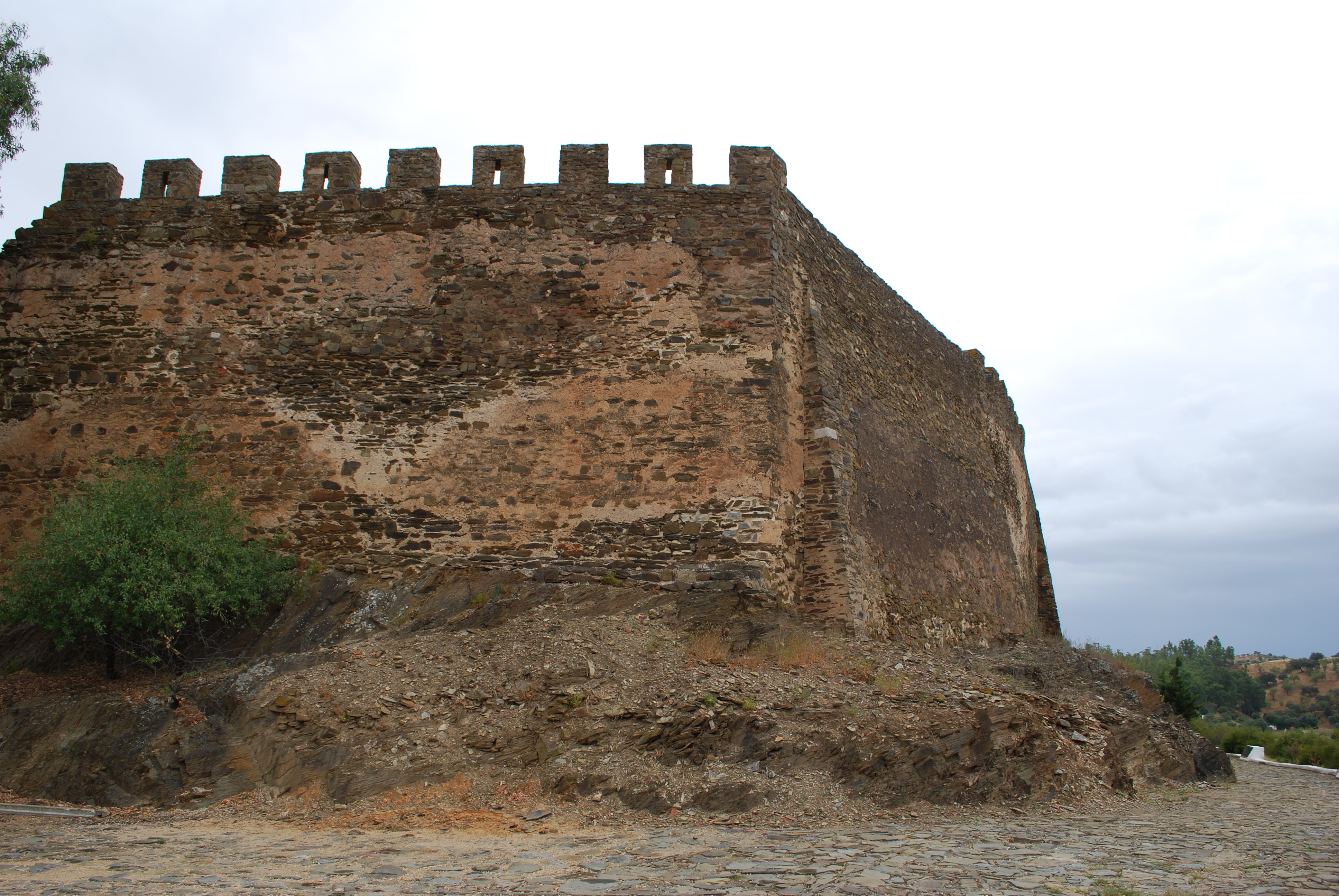 This file was uploaded for Wiki Loves Monuments in Portugal with the unique identifier 73247.